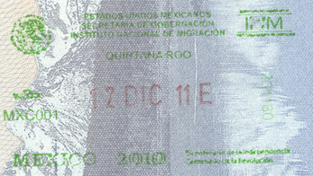 Mexico entry stmap